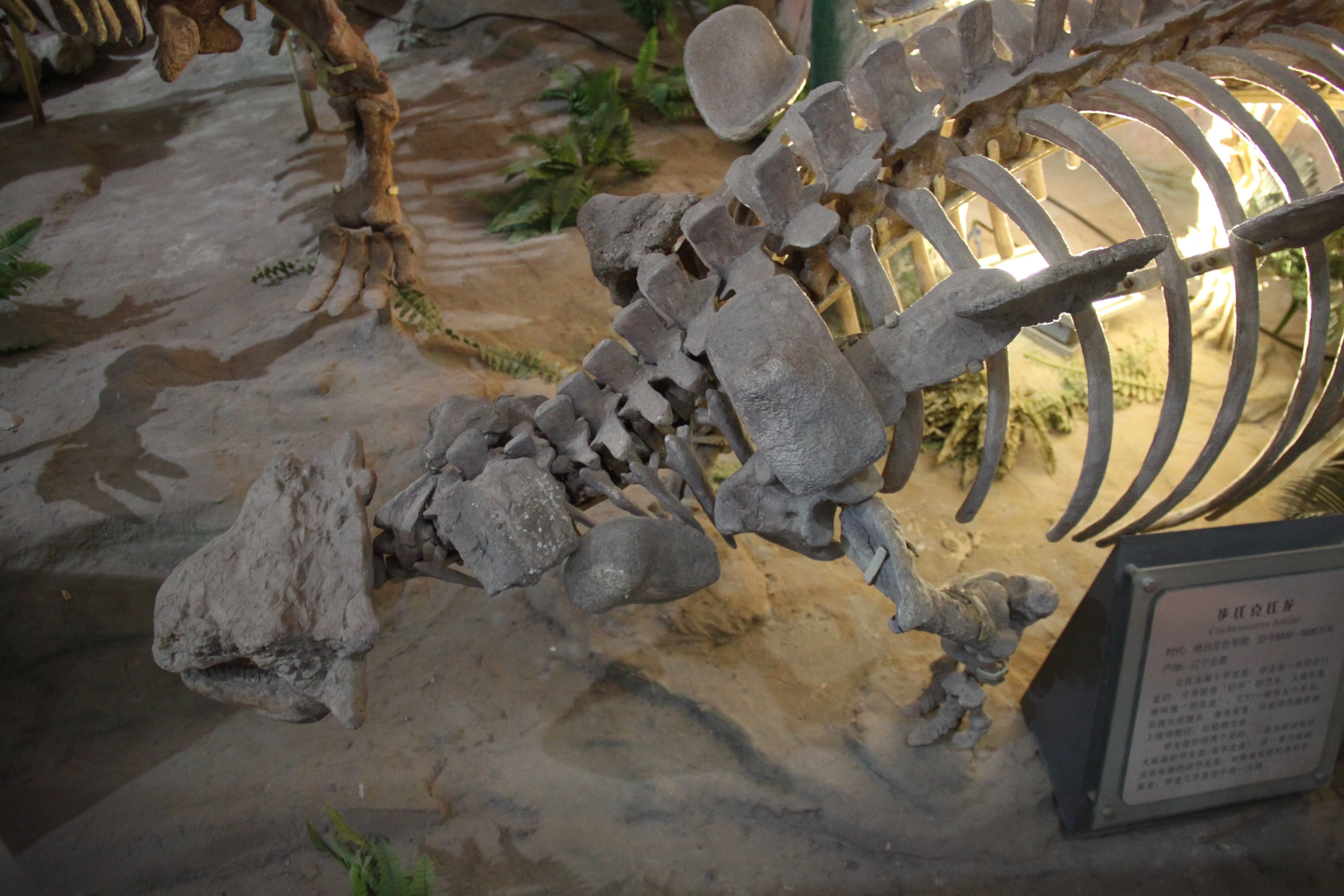 Henan Geological Museum, Zhengzhou, China. Complete indexed photo collection at .